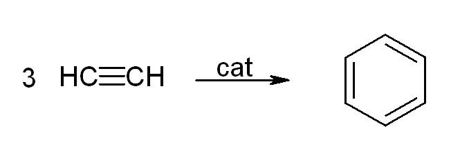 cyclisation of acetylene with Reppe chemistry forming benzene